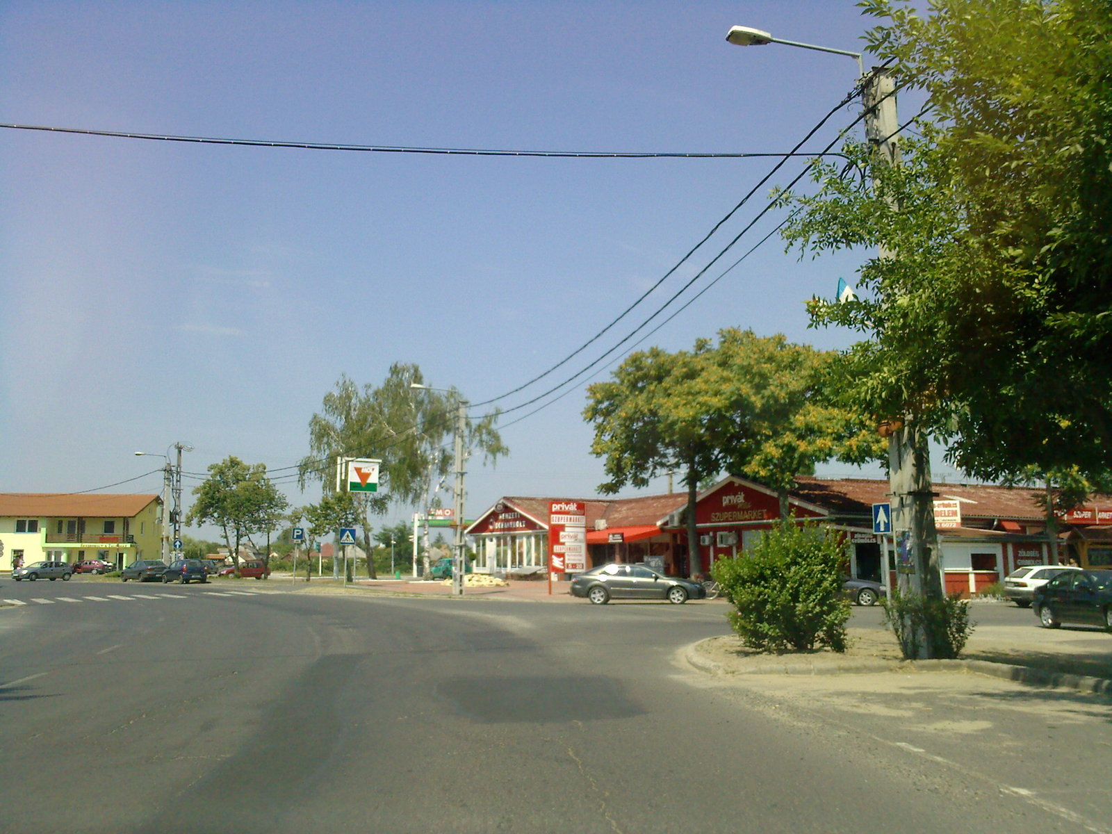 Vámospércs, Hajdú-Bihar County, Hungary